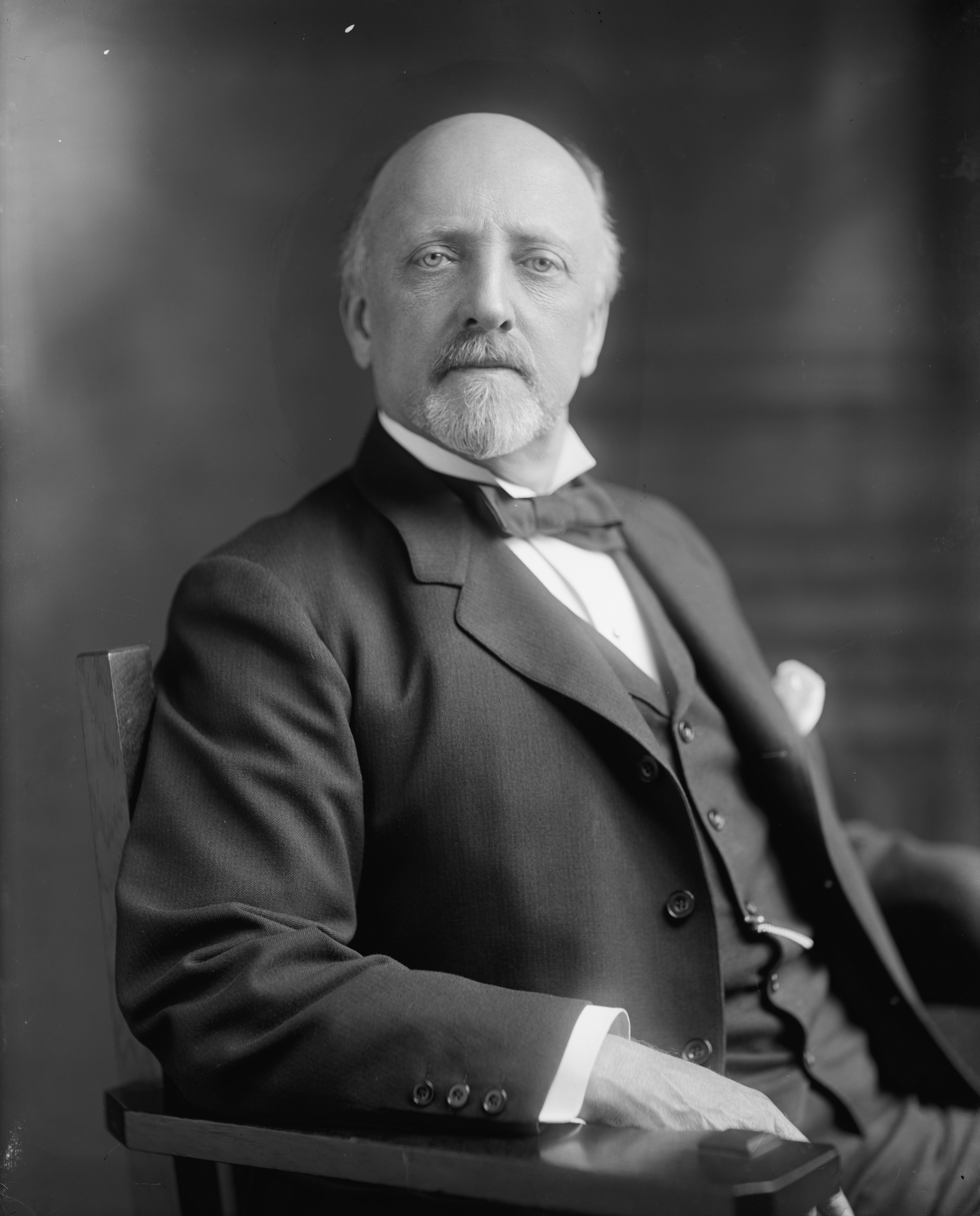 Title: WARRINGTON, JOHN W. JUDGE Abstract/medium: 1 negative : glass ; 8 x 10 in. or smaller